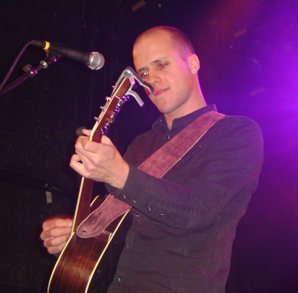 Belgian singer Milow, live in Utrecht, March 26, 2008